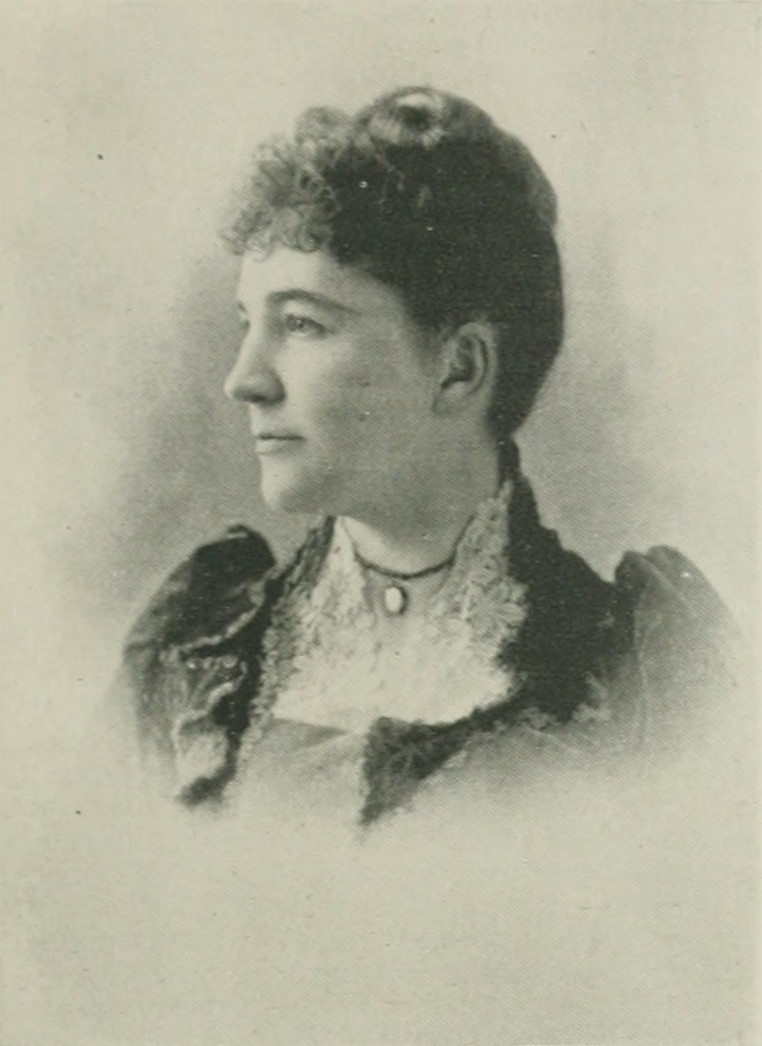 one of the Women of the Century